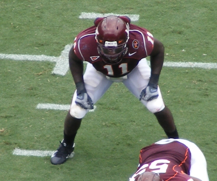 Xavier Adibi (en) and the 2007 Virginia Tech Hokies football team take on East Carolina